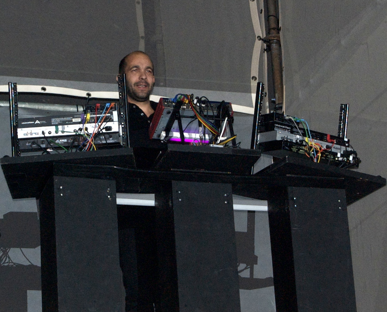 Étienne de Crécy, at Scopitone festival (Nantes), in 2008.